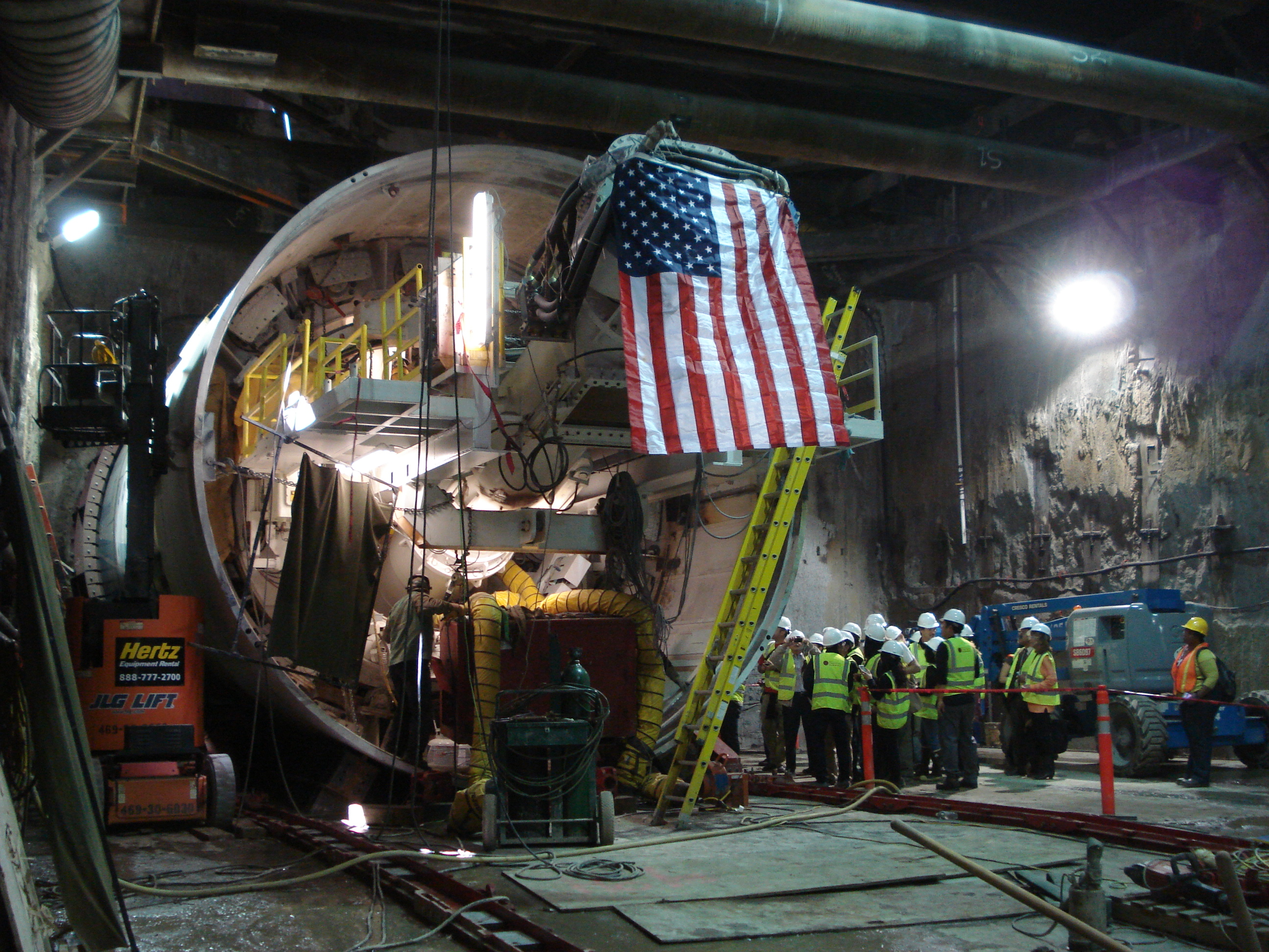 San Francisco Muni Central Subway Tunnel Boring Machine tour, May 30, 2013.